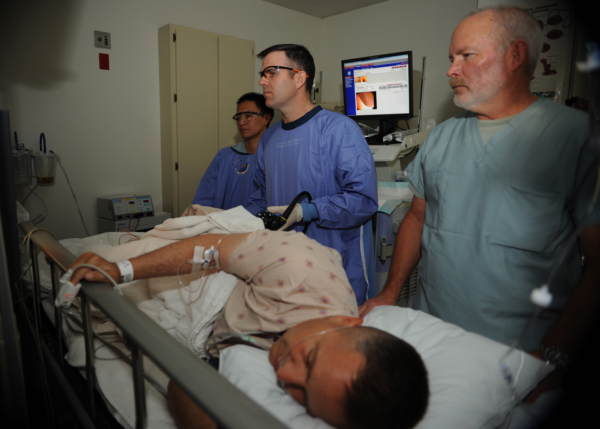 SAN DIEGO (April 5, 2011) Hospitalman Urian D. Thompson, left, Lt. Cmdr. Eric A. Lavery and Registered Nurse Steven Cherry review the monitor while Lavery uses a colonoscope on a patient during a colonoscopy at Naval Medical Center San Diego. (U.S. Navy photo by Mass Communication Specialist 2nd Class Chad A. Bascom/Released)